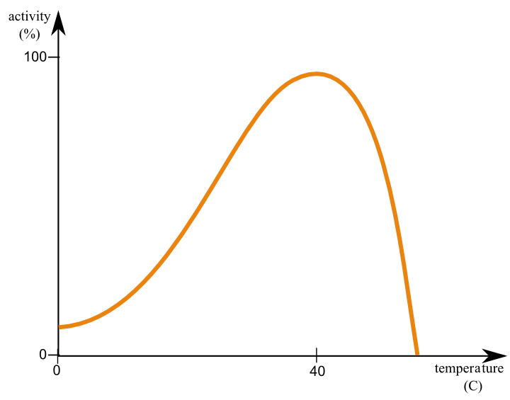 graph of enzyme activity against temperature